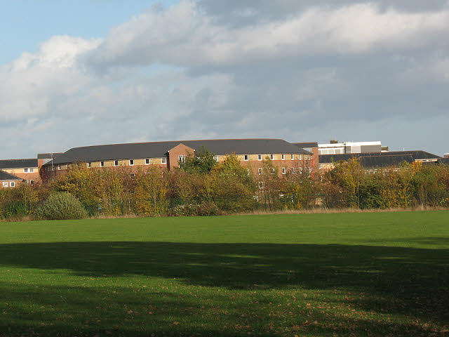 Greenwich University: Avery Hill site Avery Hill was originally a teacher training college but is now part of Greenwich University. Some of the buildings seen from across Avery Hill Park.